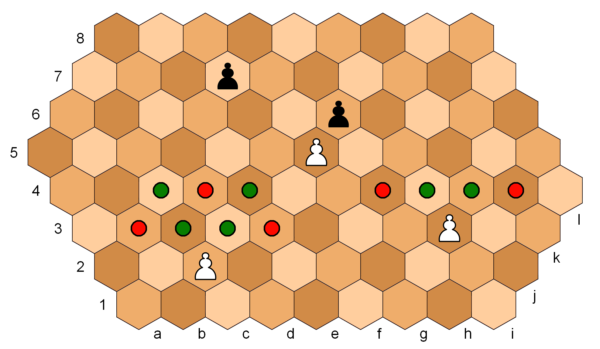 Brusky's hex chess, showing pawn moves. Made in PAINT using ProjChess colors and the great chess icons fashioned by David Benbennick (User:Dbenbenn).